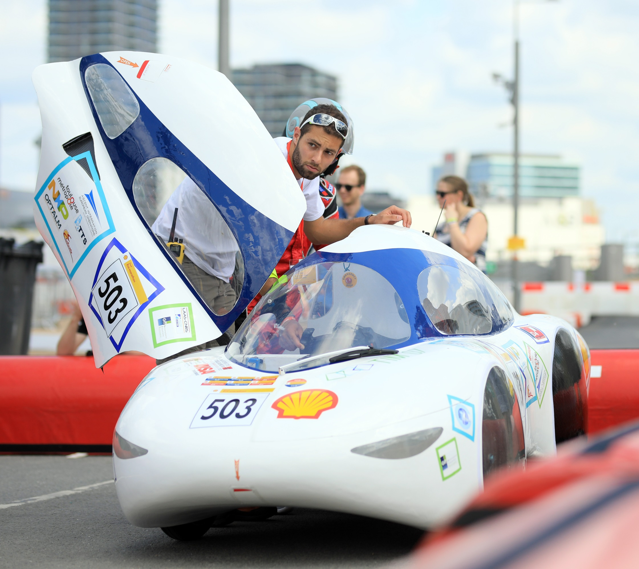 TIM07 is a Urban Concept car conceived and built by students from the association TIM (INSA Toulouse and Paul Sabatier University) between 2009 and 2015. This picture was taken in London the week of its first world record : 684.7km with 1L of ethanol !